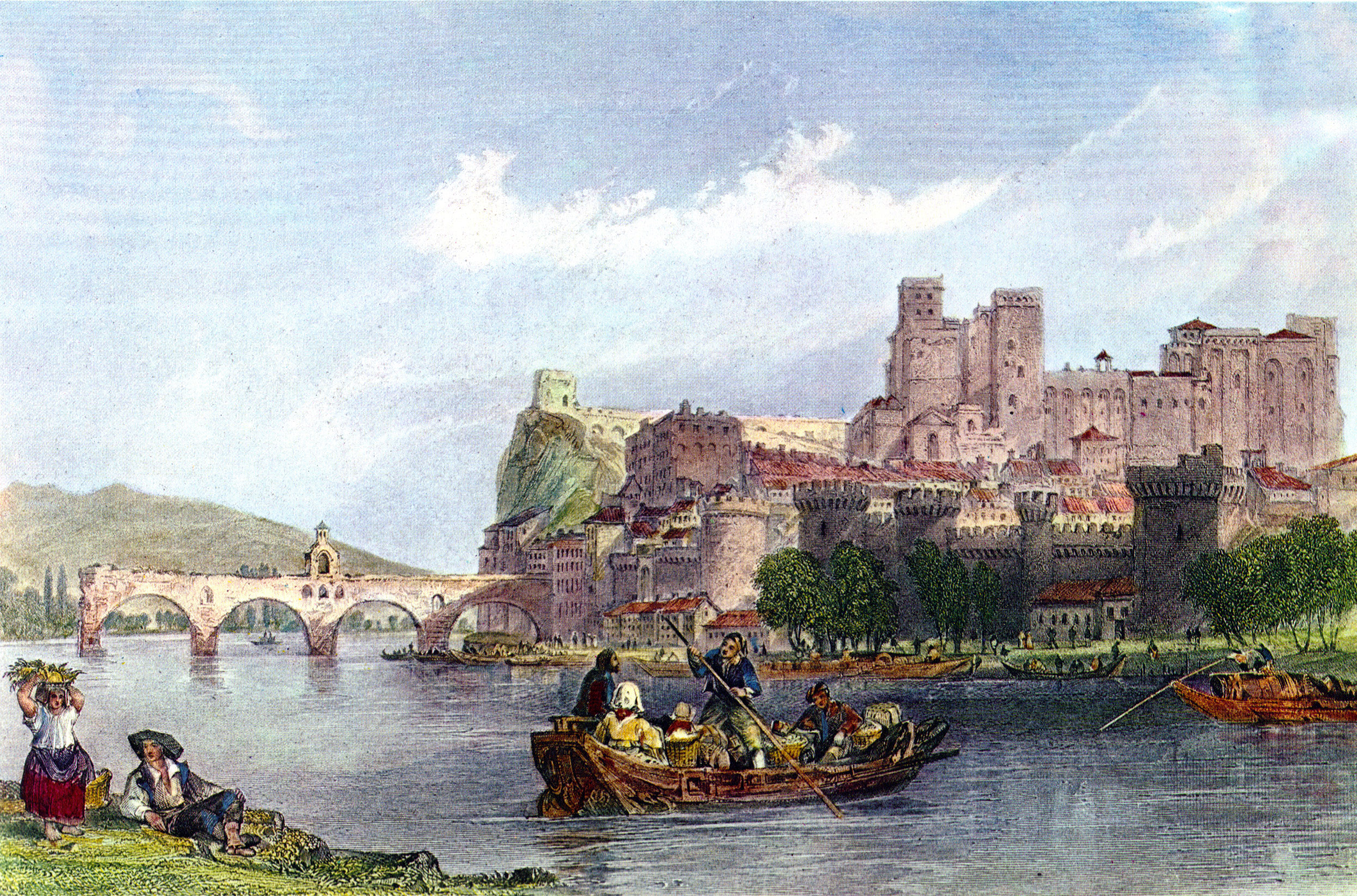 Avignon boat scene, around 1840. Drawing by T. Allom, engraving by E. Brandard.